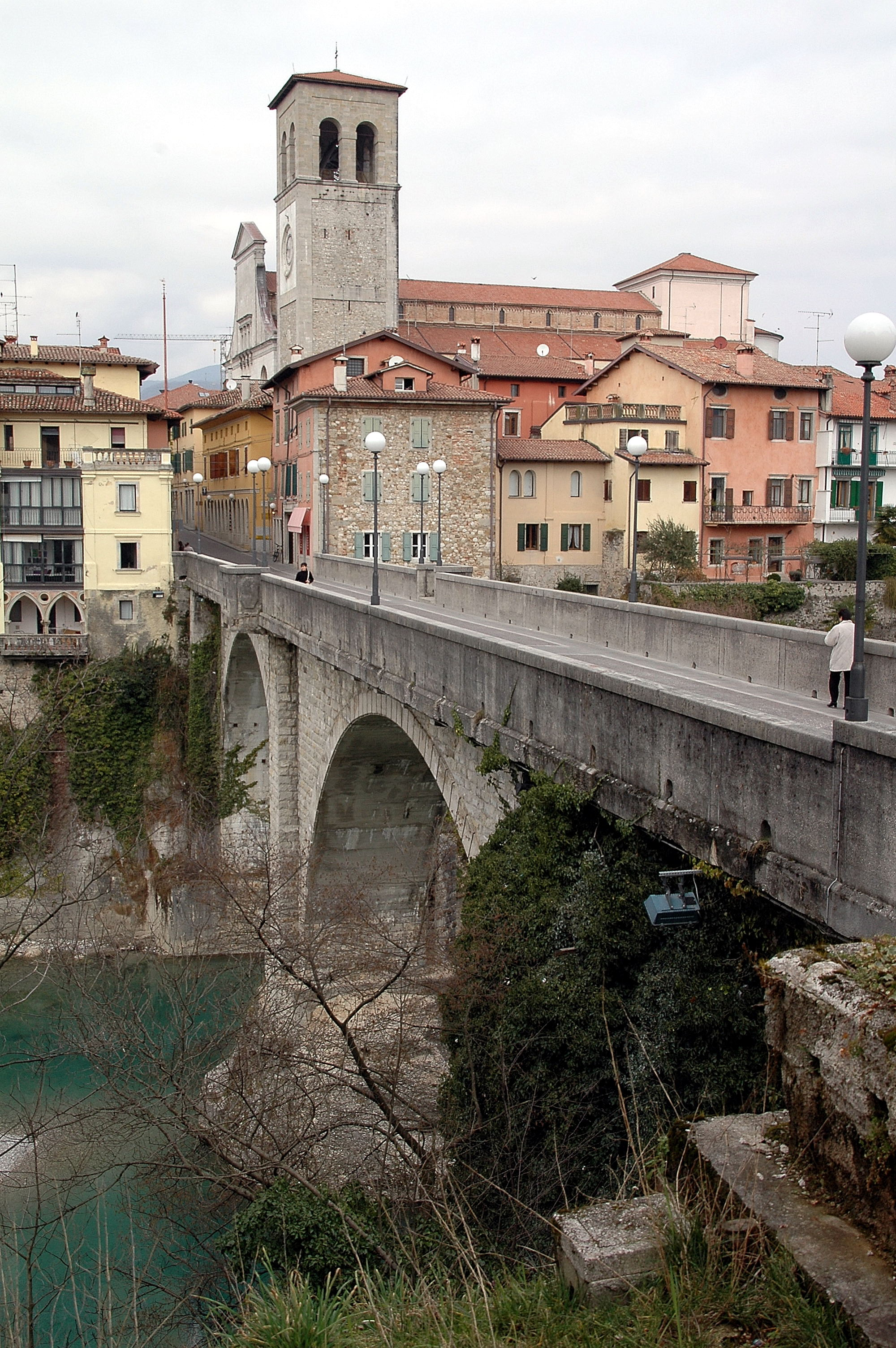 Devils bridge in Cividale Quelle: selbst fotografiert Fotograf/Zeichner: Johann Jaritz Miles Datum: 24. März 2006 Sonstiges